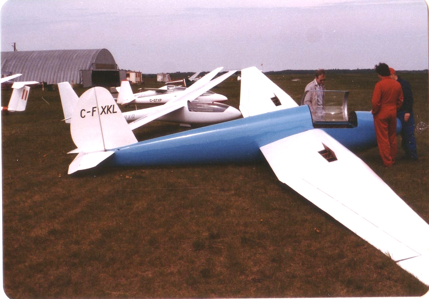 I took this photo of Schweizer SGS 1-23D C-FXKL at the Edmonton Soaring Club, Chipman, Alberta in 1984.